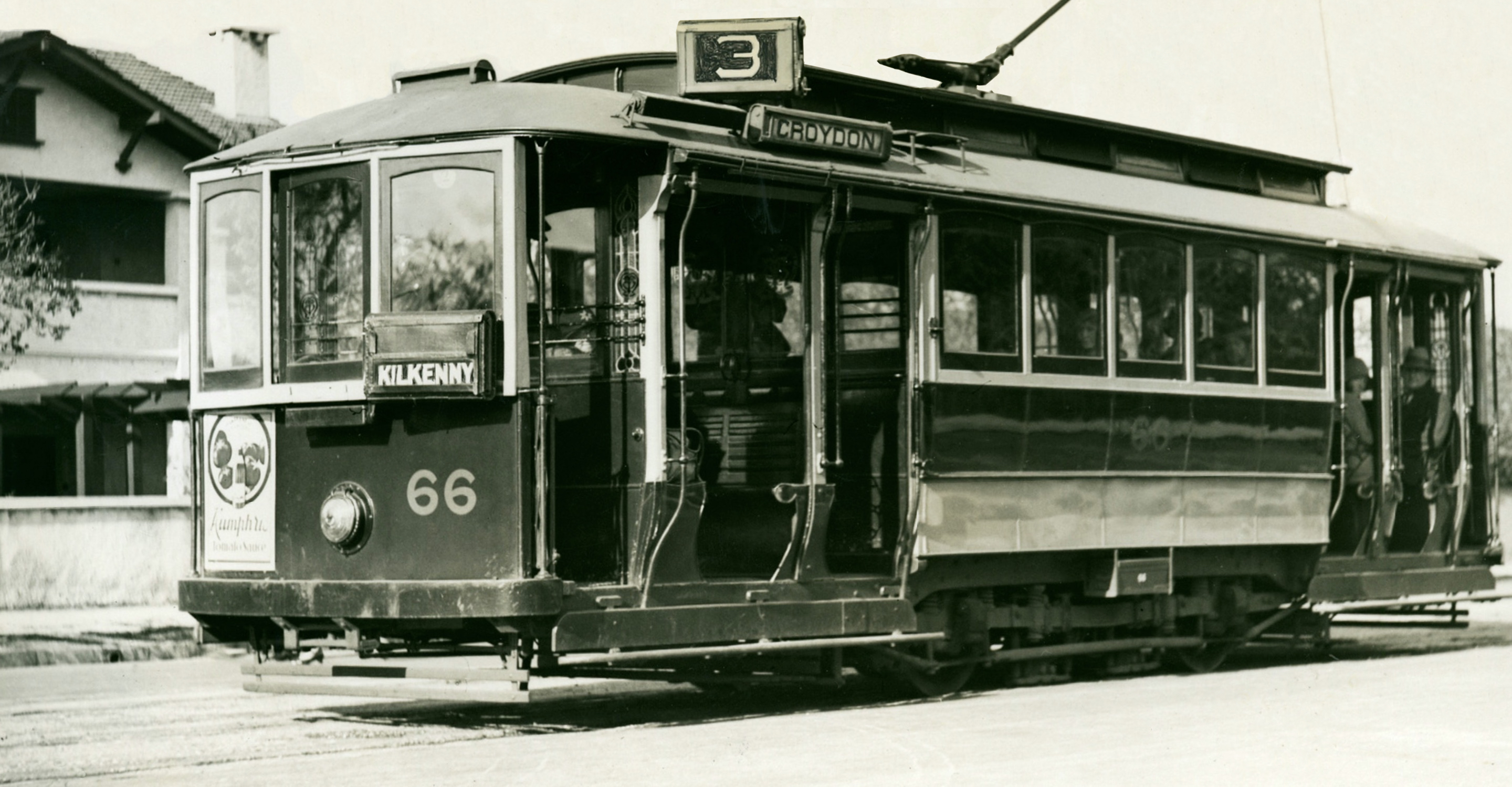 Adelaide Type A tram 66 en route to Kilkenny via Croydon, about 1930. This tram was one of the first batch of trams imported by the Municipal Tramways Trust when it set up Adelaide's electric street tram network in 1908. Two decades later they operated on the quieter routes such as Croydon and Port Adelaide as larger trams became available; they were gradually placed into storage in the 1930s. However, during and after the Second World War on account of petrol rationing and to conserve manpower 58 cars were permanently joined in pairs.